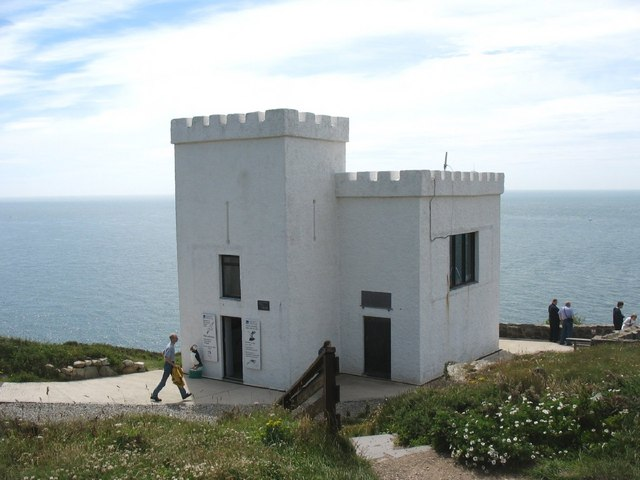 Ellin's Tower This folly was a summer house built for his wife Ellin (nee Williams)by W.O. Stanley of Penrhos. After years of neglect it was renovated in the 1980s and is now used as an information centre by the RSPB. It is bisected by the Northing 82.